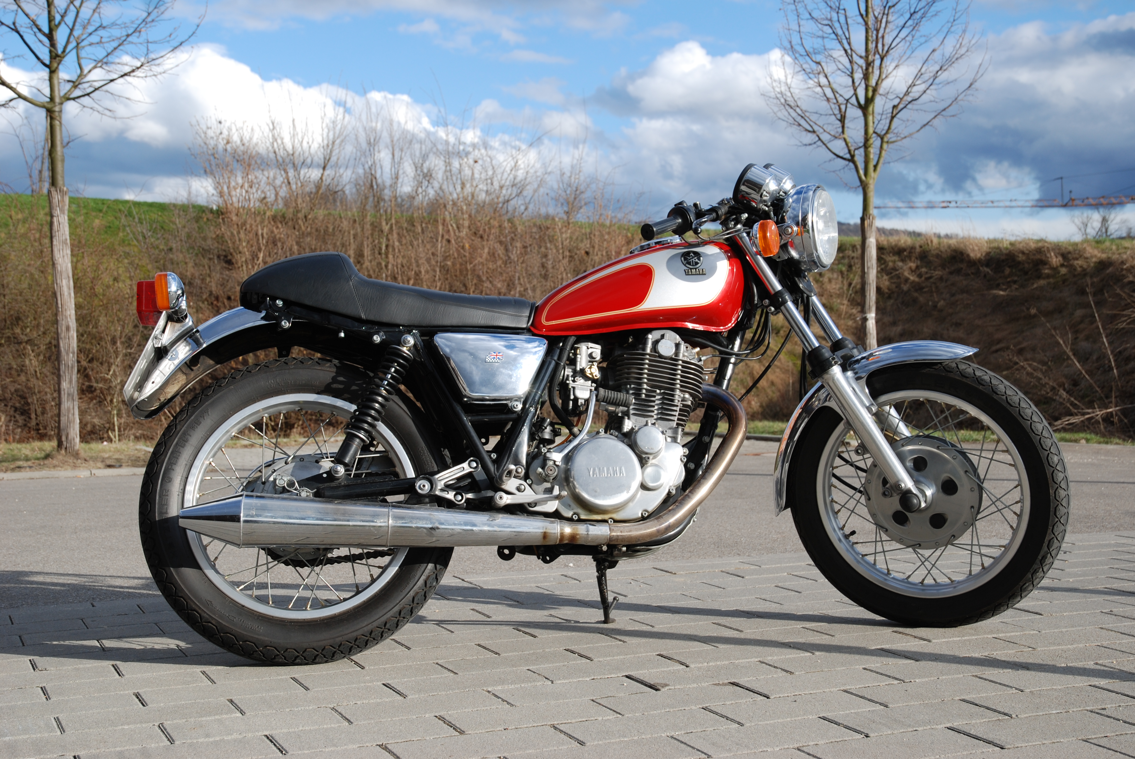 A Yamaha SR 500